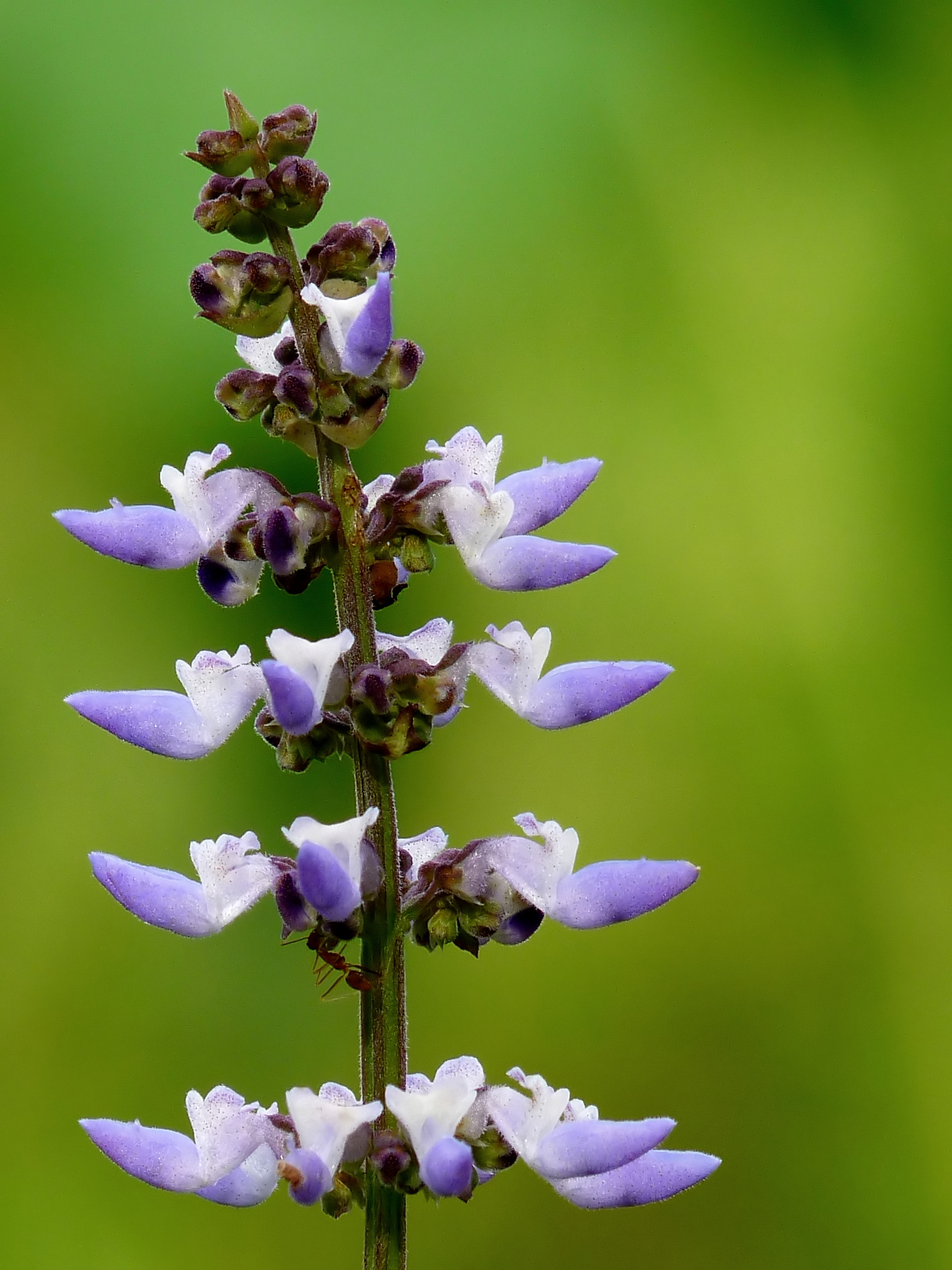 Plectranthus rotundifolius or Solenostemon rotundifolius is a perennial herbaceous plant of the mint family (Lamiaceae) native to tropical Africa. It is cultivated in parts of West Africa, South Asia and Southeast Asia for its edible tubers. Wild varieties are found in the grasslands of East Africa. In English, P. rotundifolius is often called "Chinese potato", "Coleus potato" or "Hausa potato". It goes by a wide variety of names in languages spoken in areas where it is grown. Taken at Kadavoor, Kerala, India.